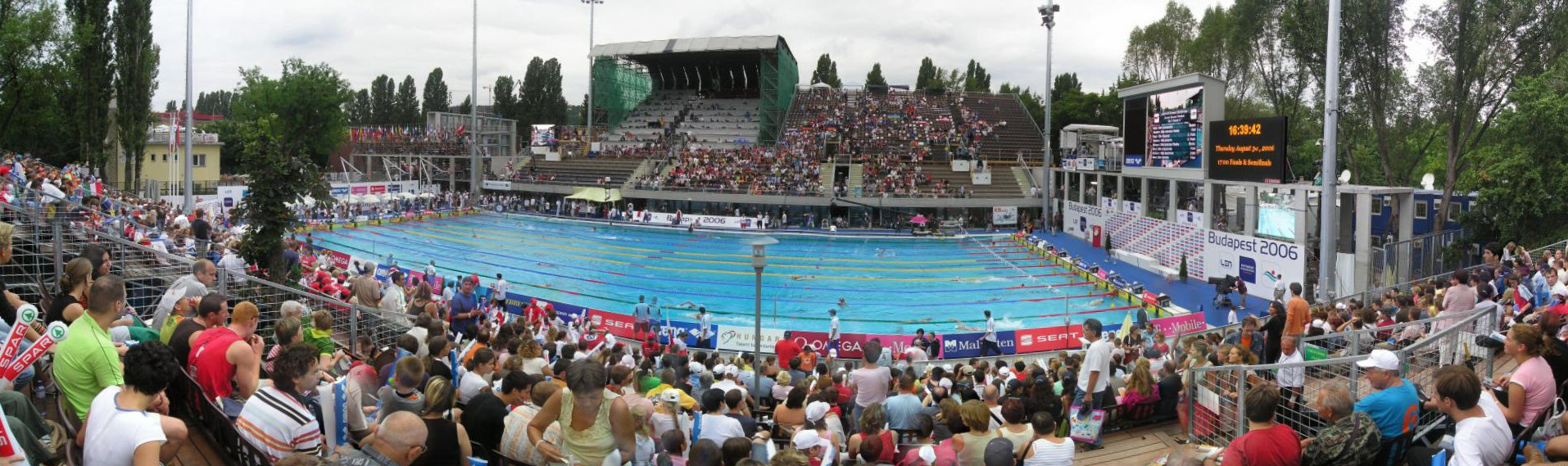 Swimming pool European Championship 2006, Budapest